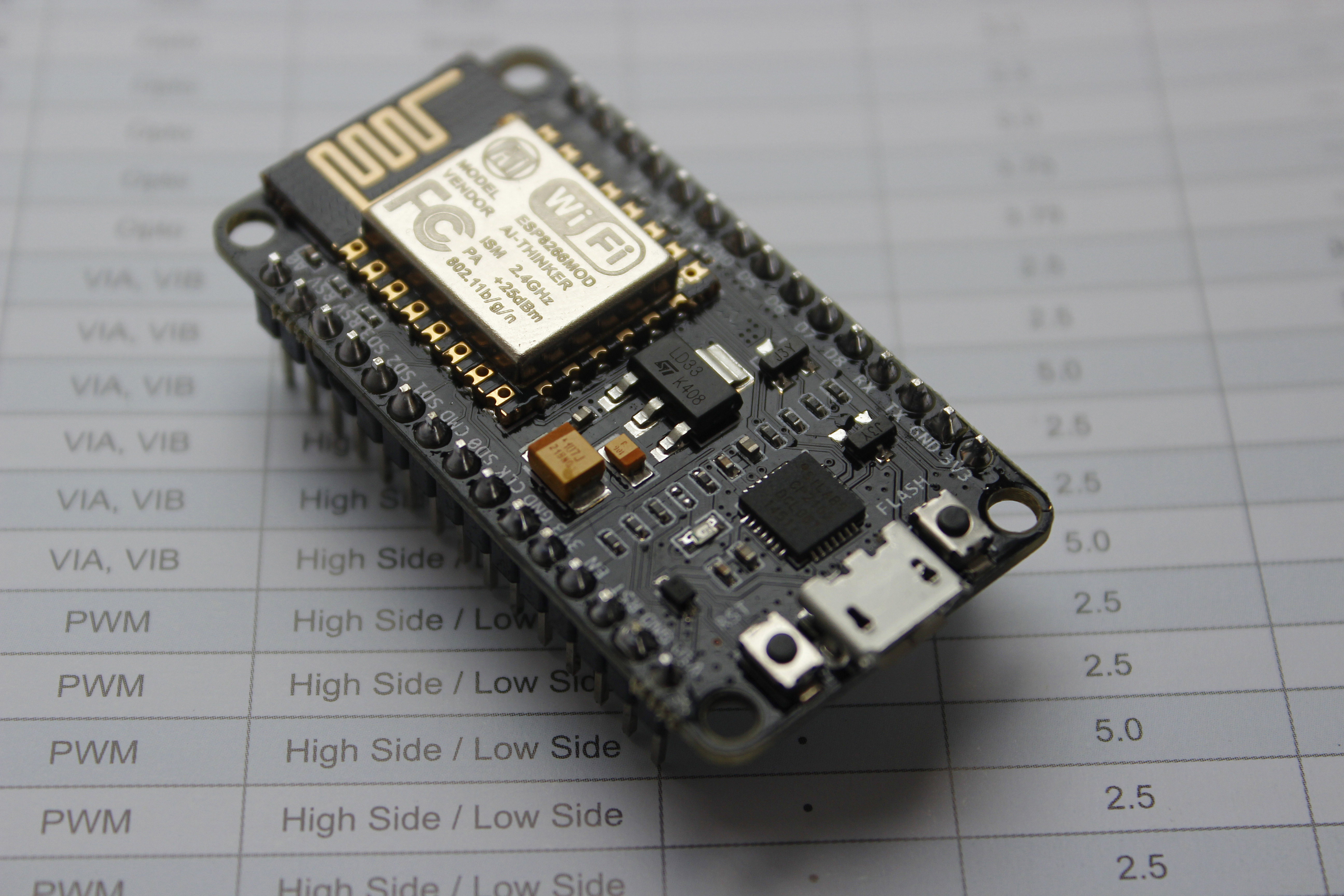 NodeMCU development board version 1.0 for NodeMCU Firmware, it based on ESP8266 Wi-Fi SoC. It based CP2102 USB-UART bridge and support MAC OS.